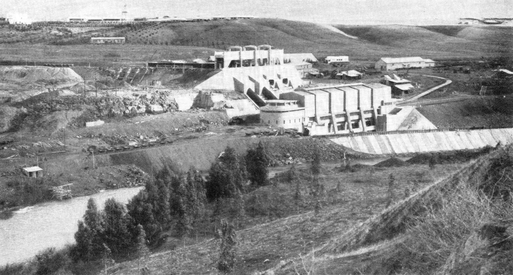 Power station on Jordan River 1935